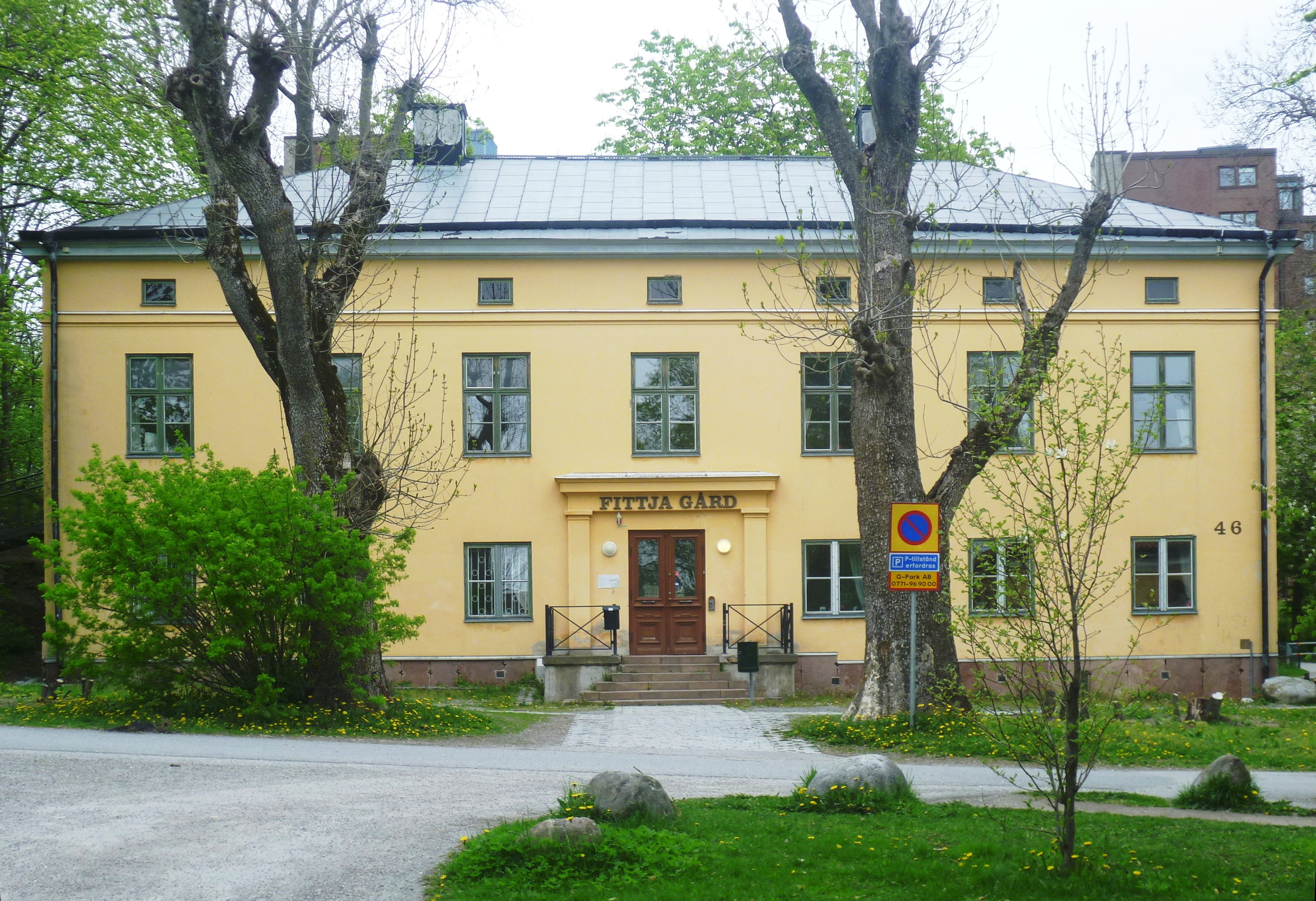 The front of Fittja gård in the south of Stockholm, Sweden